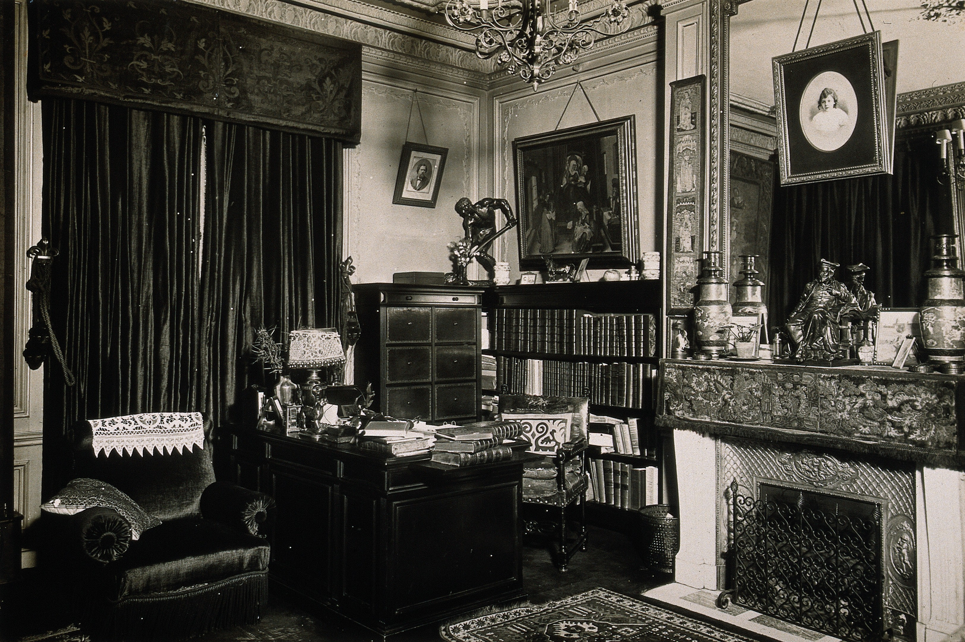 Professor and Mrs Dejerine's study in their flat Boulevard Saint Germain, Paris; desk, armchair, chimney and book. Photograph. Iconographic Collections Keywords: Joseph Jules Déjerine; Augusta Déjérine-Klumpke